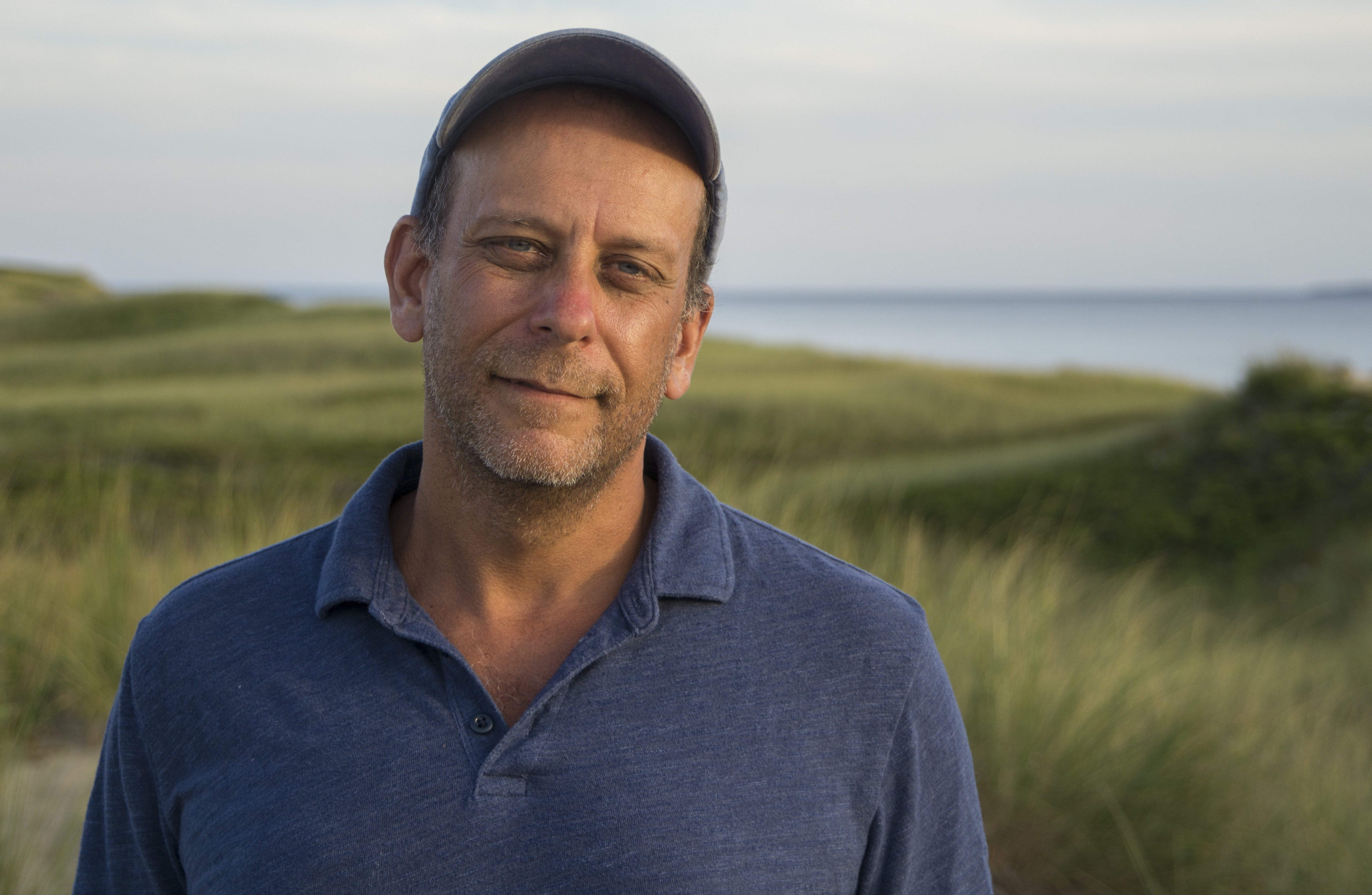 Paul Greenberg in Aquinnah, Martha's Vineyard